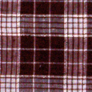 Cotton Fabric of Sigori